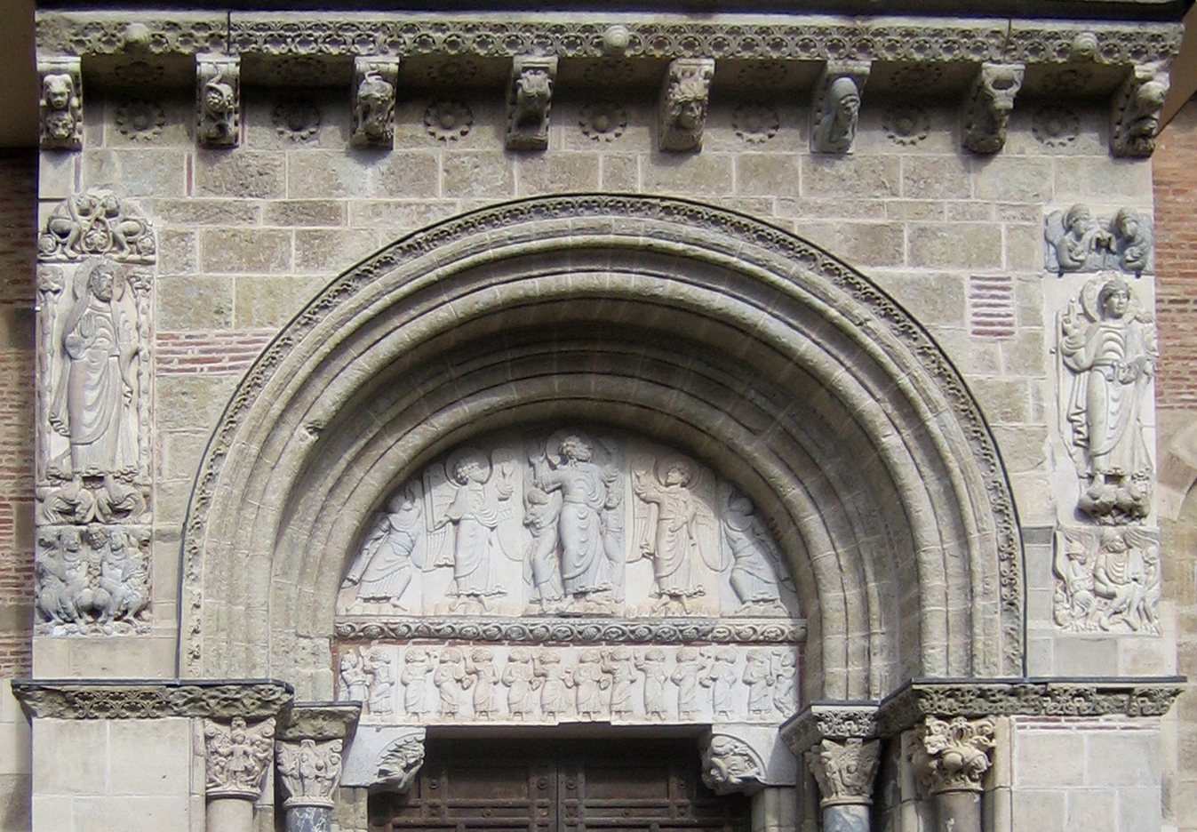 Porch of St. Sernin